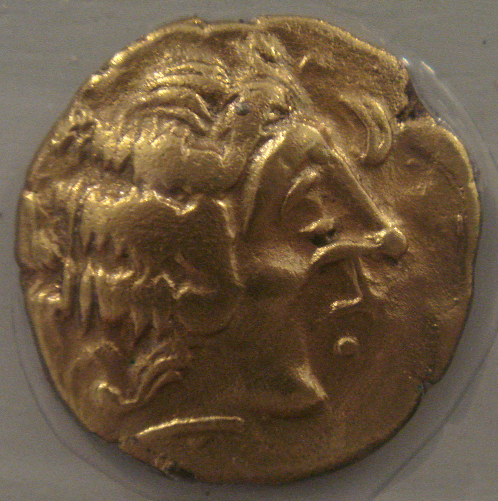 Diablintes_coin_5th_1st_century_BCE